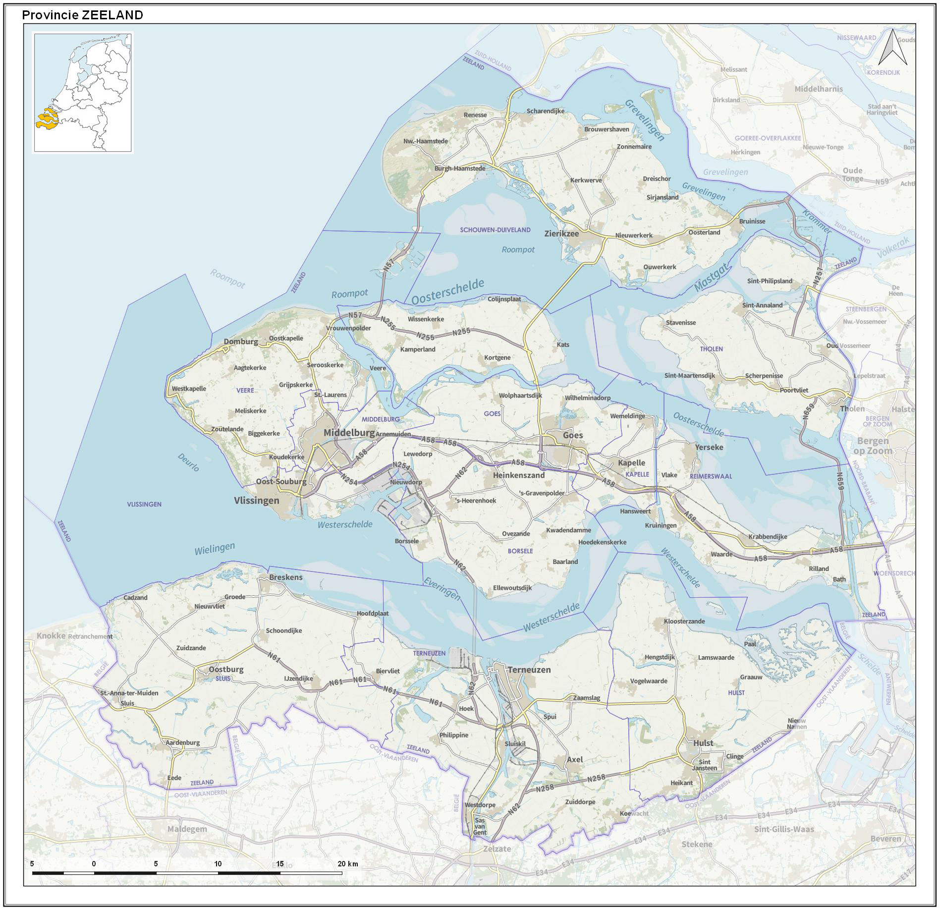 Toographic overview map of the Dutch Province of Zeeland as of 2018. Compiled by Jan-Willem van Aalst using Dutch Governmental open data (CC-BY Kadaster) and OpenStreetMap data (CC-BY OpenStreetMap contributors).